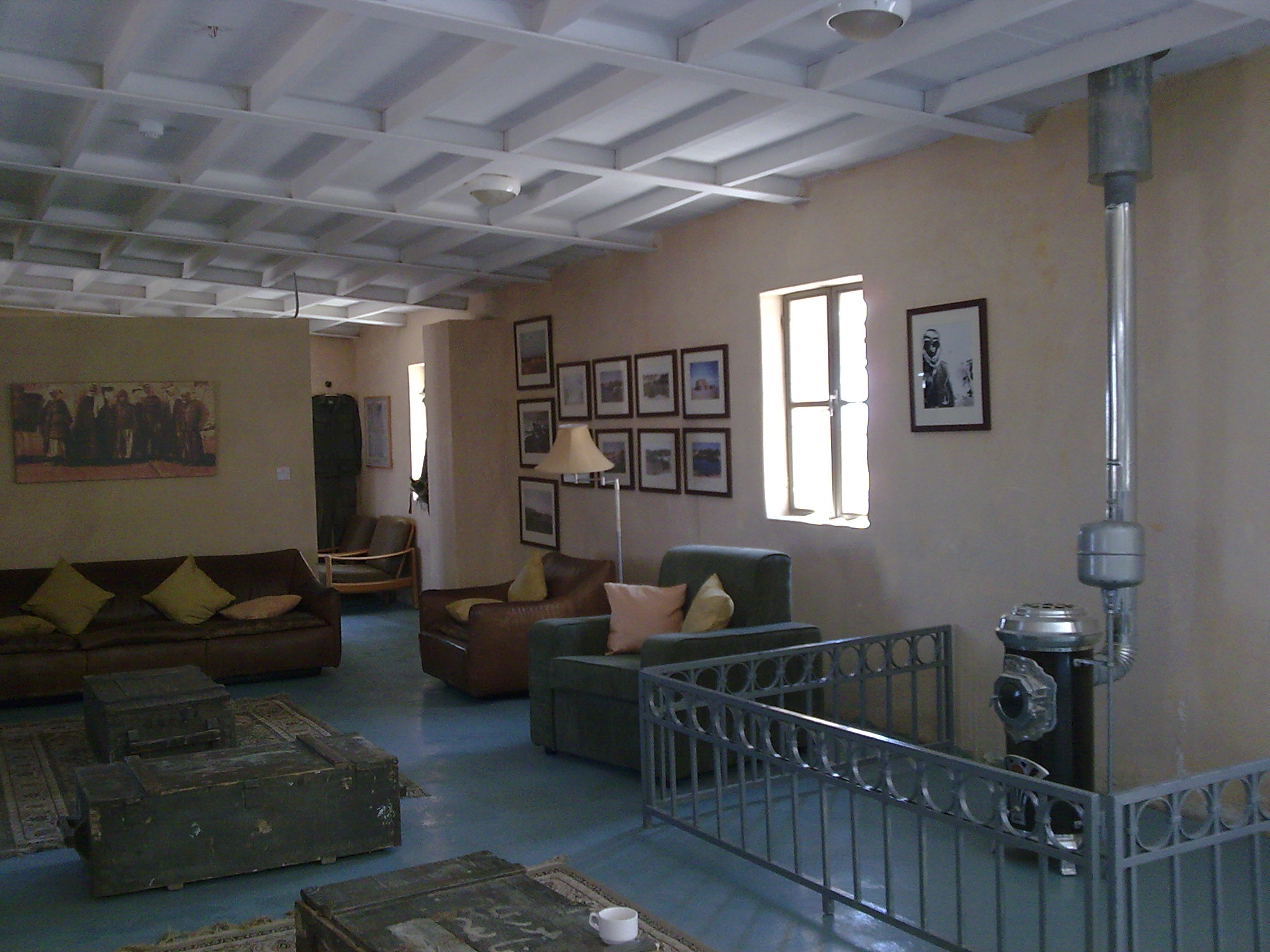 self made of the azraq reception area Summary self made of the azraq reception area